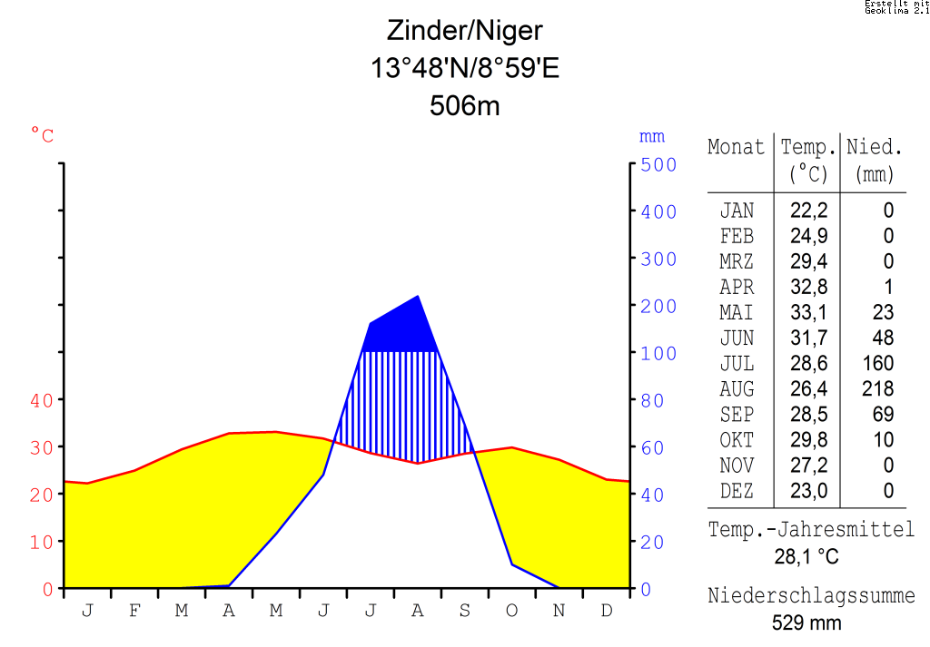 climate chart in the format by Walther and Lieth, metric, °Celsisus and millimeters, made with Geoklima 2.1 DateOctober 2006SourceSoftware: Geoklima 2.1 Website GeoklimaAuthorHedwig in WashingtonPermission (Reusing this file) Own work, attribution required (Multi-license with GFDL and Creative Commons CC-BY 2.5)